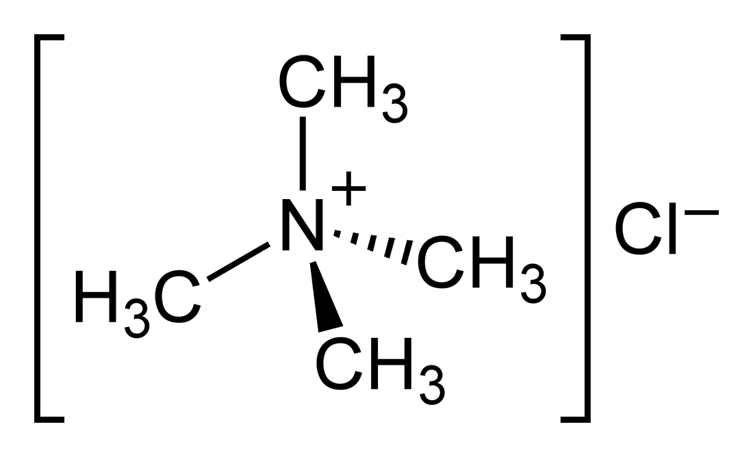 Structural formula of tetramethylammonium chloride. Structure drawn in ChemDraw Ultra 11.0.